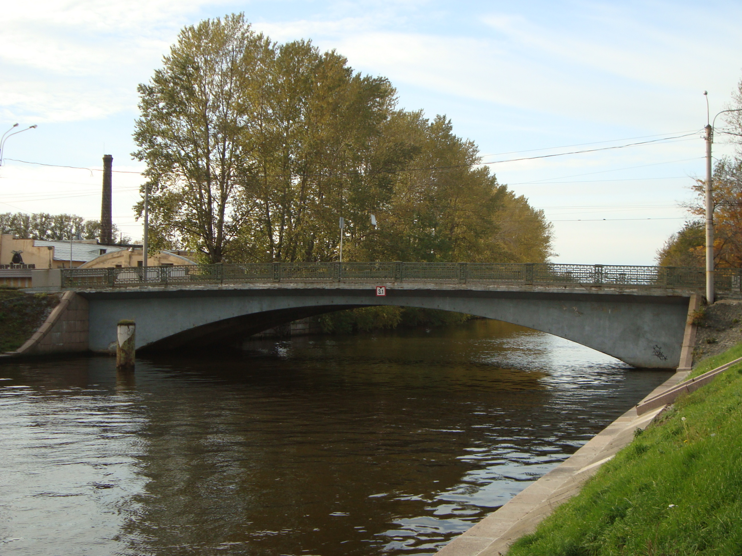 Malo-Petrovsky bridge across Zhdanovka River in Saint Petersburg